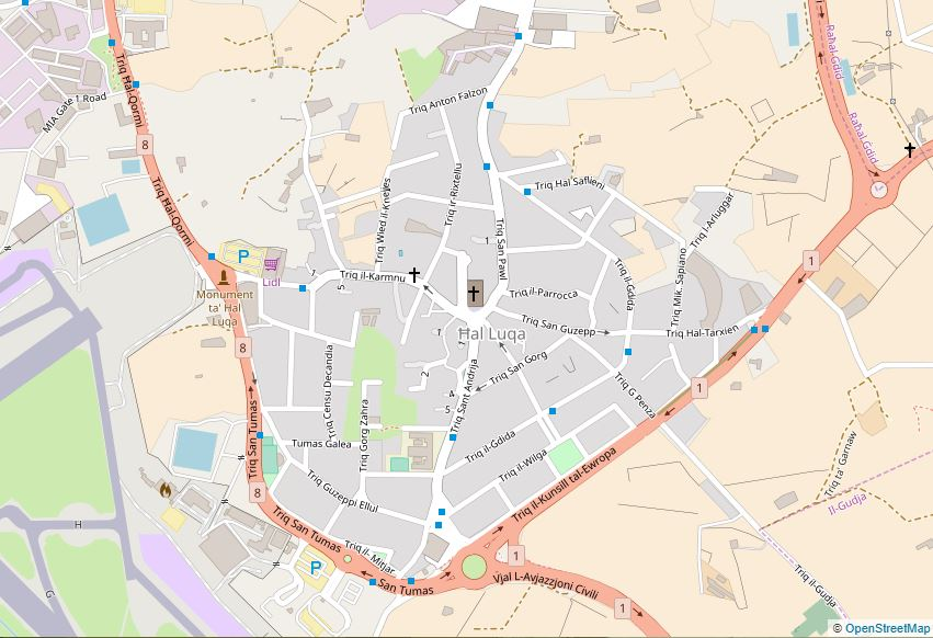 Luqa, Malta - Open Street Map This map may be incomplete, and may contain errors. Don't rely solely on it for navigation.